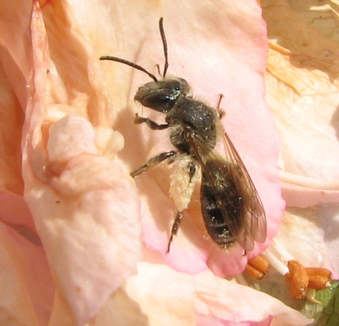 Female miner bee, Andrena cornelli, on azalea flower. Briar Bush Nature Center, Montgomery County, Pennsylvania, USA. 40.1228° N, 75.1281° W.